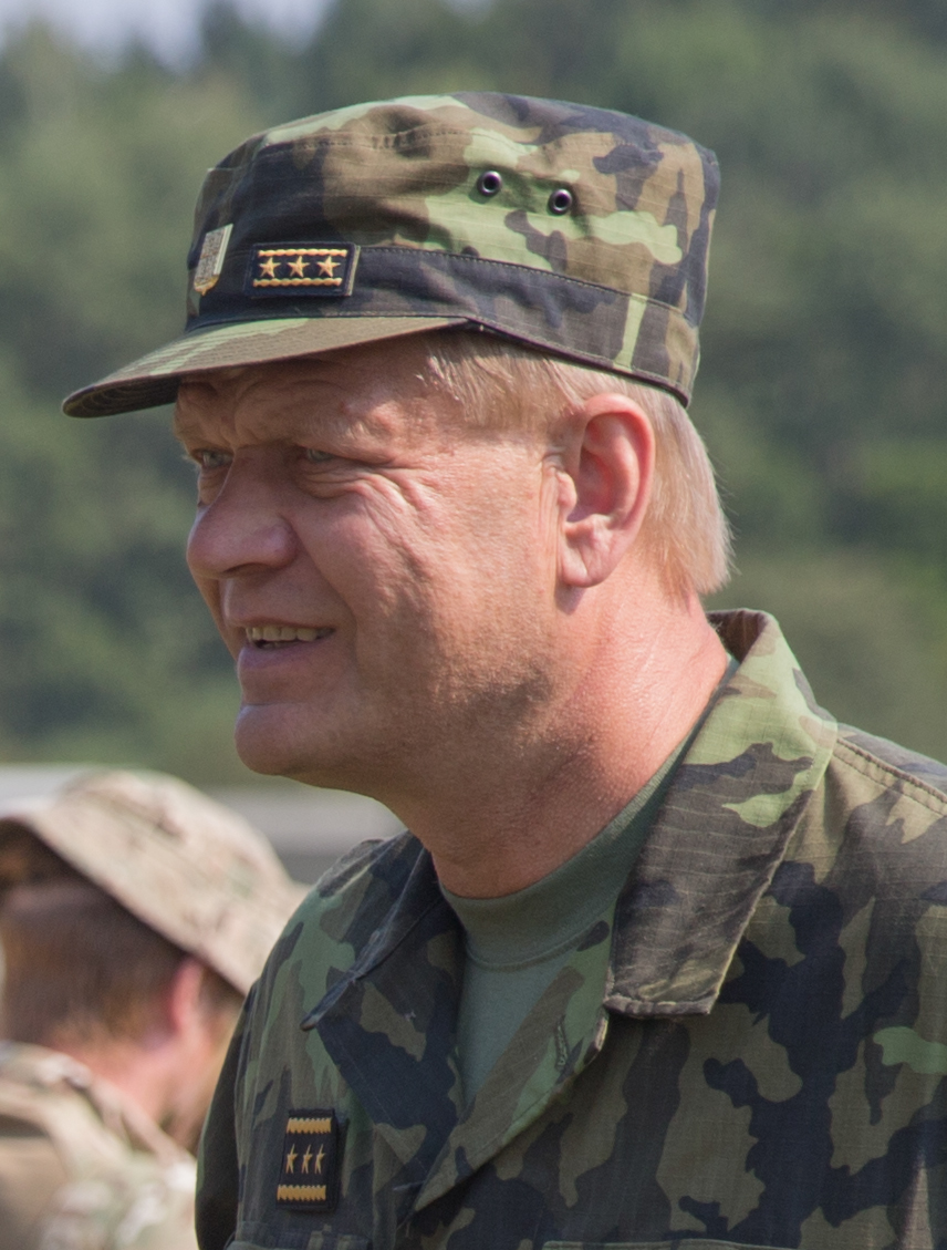 Lt. Gen Josef Becvar, right, Chief of the General Staff of Armed Forces of the Czech Republic speaks to some Czech soldiers during a visit to the Hohenfels Training Area during Exercise Allied Spirit II at the Joint Multinational Readiness Center in Hohenfels, Germany, August 14, 2015. Allied Spirit II is a multinational decisive action training environment exercise that involves over 3,500 Soldiers from both the U.S., allied, and partner nations focused on building partnerships and interoperability between all participating nations and emphasizing mission command, intelligence, sustainment, and fires. (U.S. Army photo by Spc. Bryan Rankin/Released)